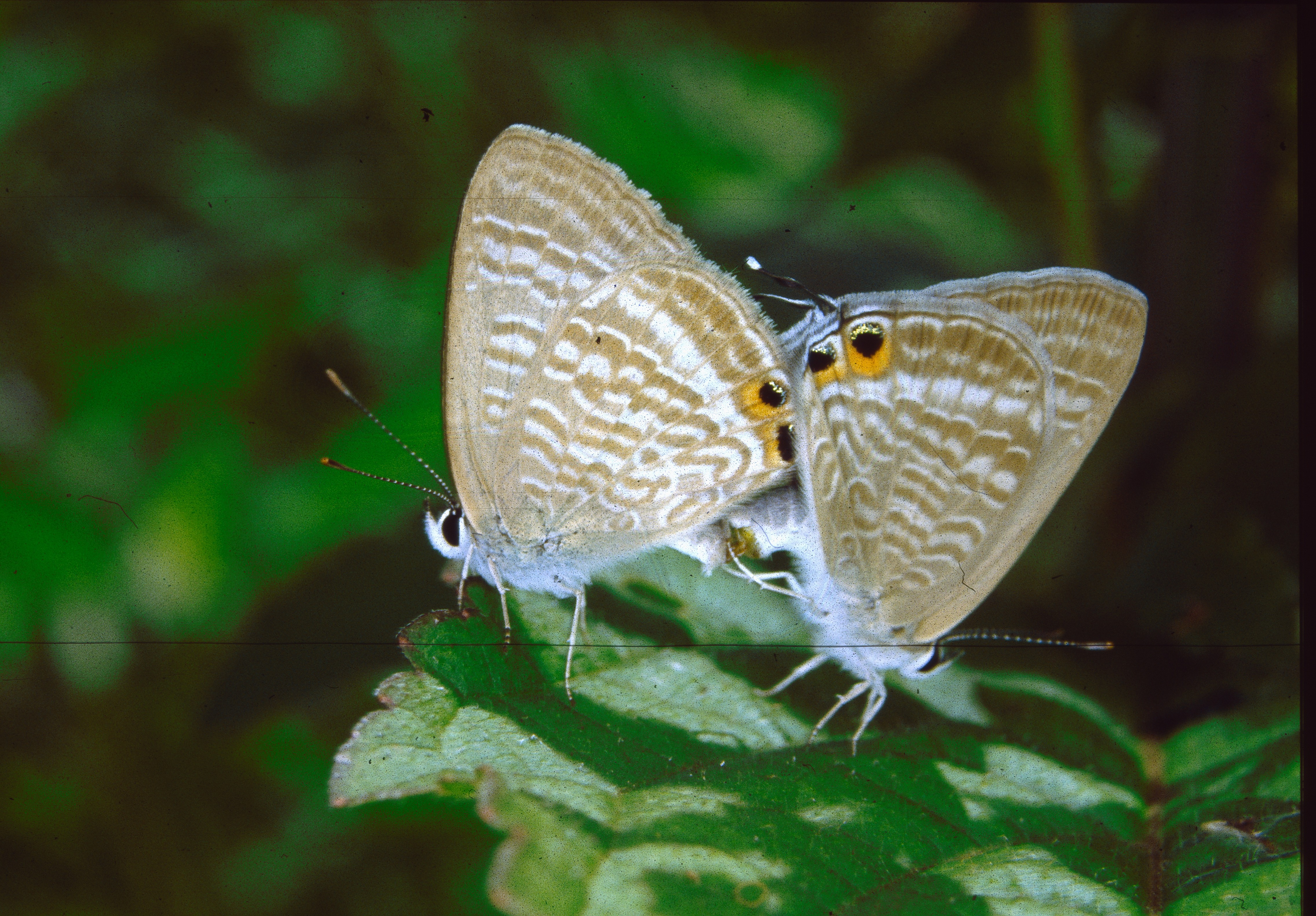 Lampides boeticus, pair in cop, N. Sulawesi, Project Wallace material, Alan Cassidy photo.